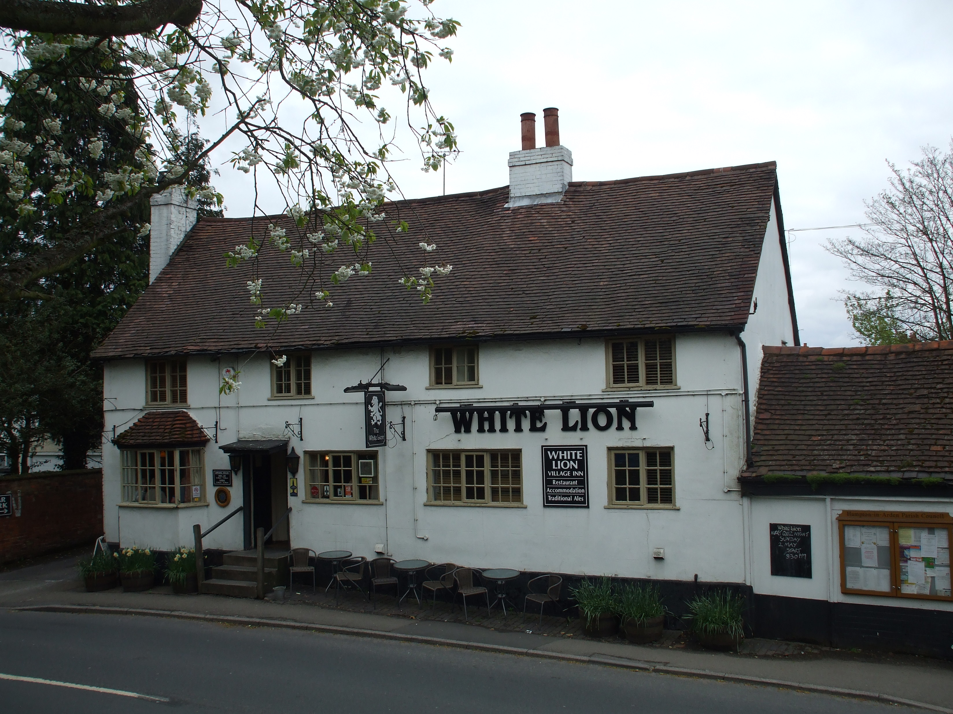 The White Lion Public hpouse Hampton in Arden Warwickshire